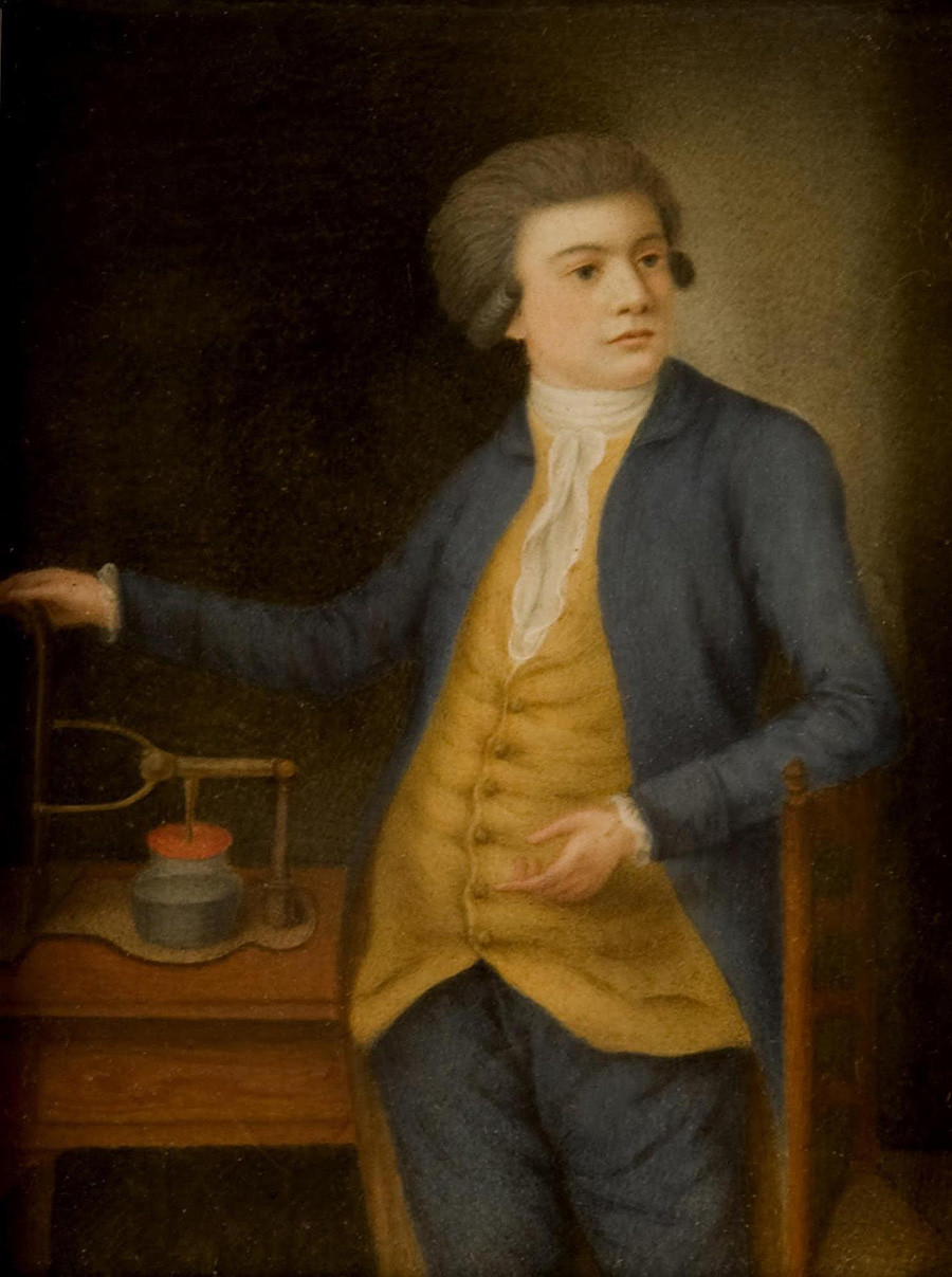 Vasily Vladimirovich Petrov, contemporary etching